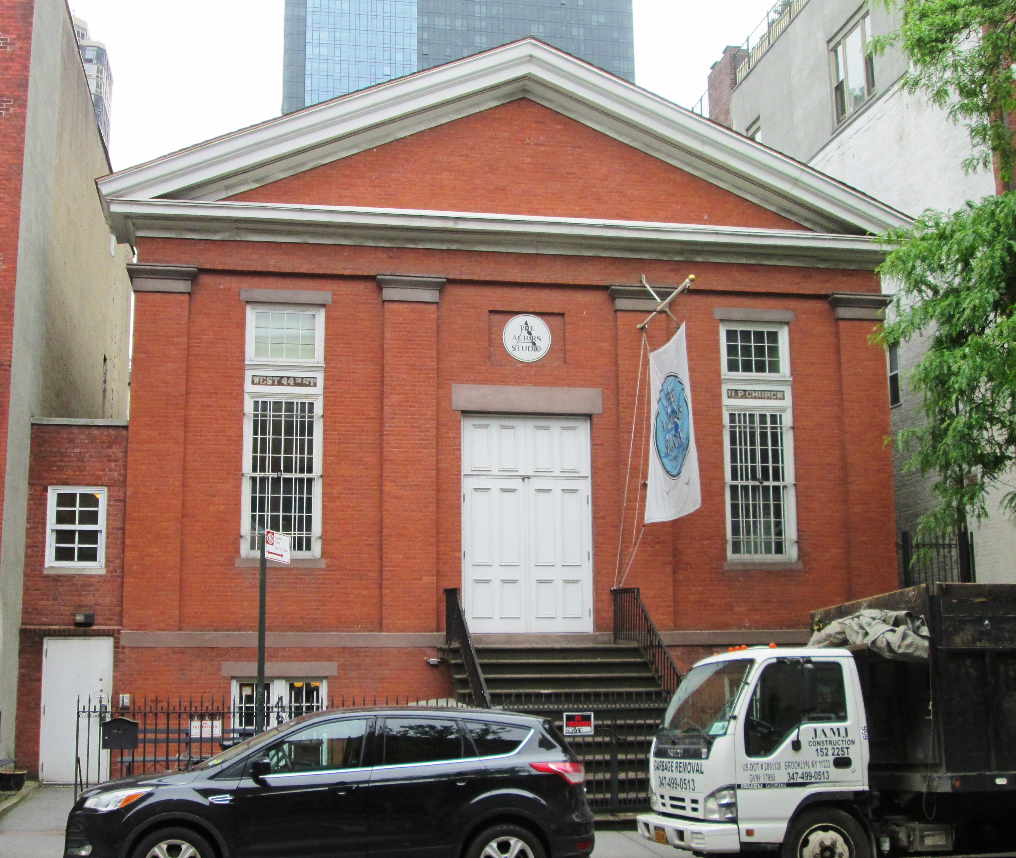 The Actors Studio at 432 West 44th Street in the Hell's Kitchen (Clinton) neighborhood of Manhattan, New York City was founded in 1947. In 1955 the Studio bought the Greek Revival building which had been built in 1858 or 1859 for the Seventh Associate Presbyterian Church (founded in 1855), and which was later used by the West Forty-fourth Street United Presbyterian Church, which disbanded in 1944. The building was renovated & restored in 1995 by Davis, Brody & Associates. (Sources: Guide to NYC Landmarks (4th ed.) and From Abyssinian to Zion (2004))